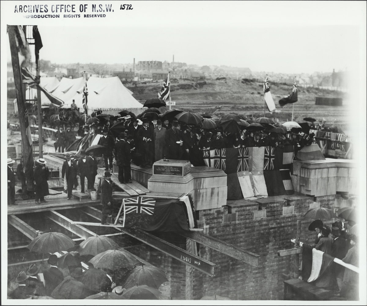 Laying the foundation stone for Central Railway Station, Sydney Dated: 26/9/1903 Digital ID: 4481_a026_000947 Rights: We'd love to hear from you if you use our photos. Many other photos in our collection are available to view and browse on our website using Photo Investigator.